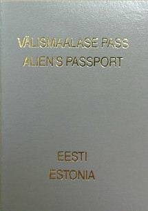 Estonian Aliens passport photo